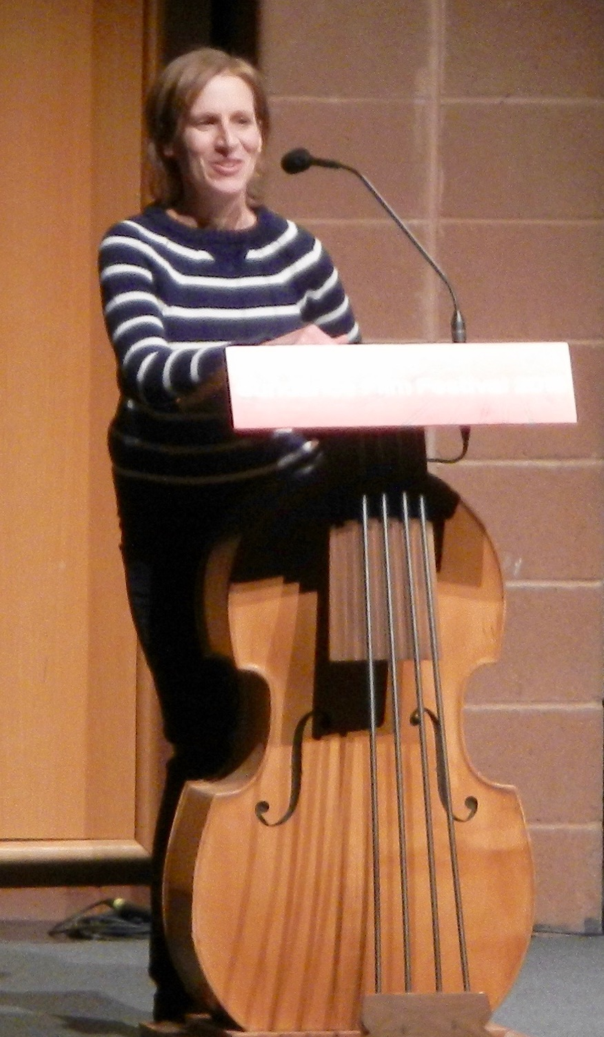 Sundance 2016, Park City UT